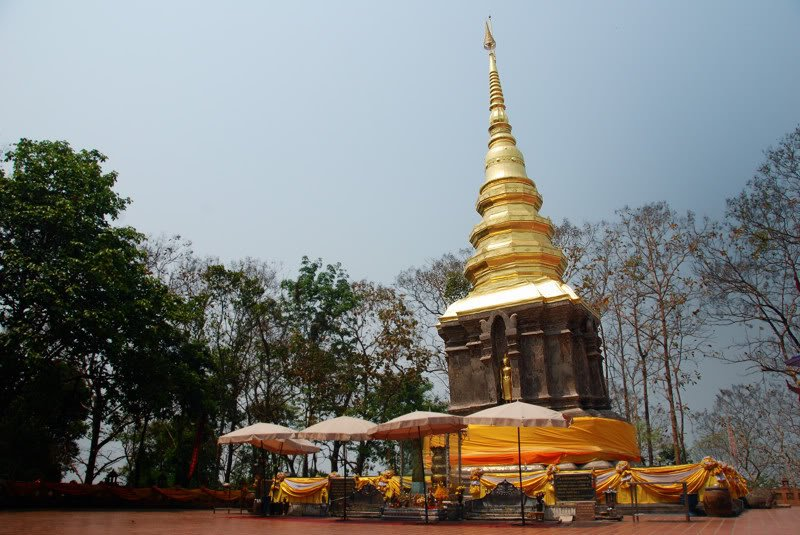 Phra That Chom Kitti, Wiang Subdistrict, Chiang Saen District, Chiang Rai Province